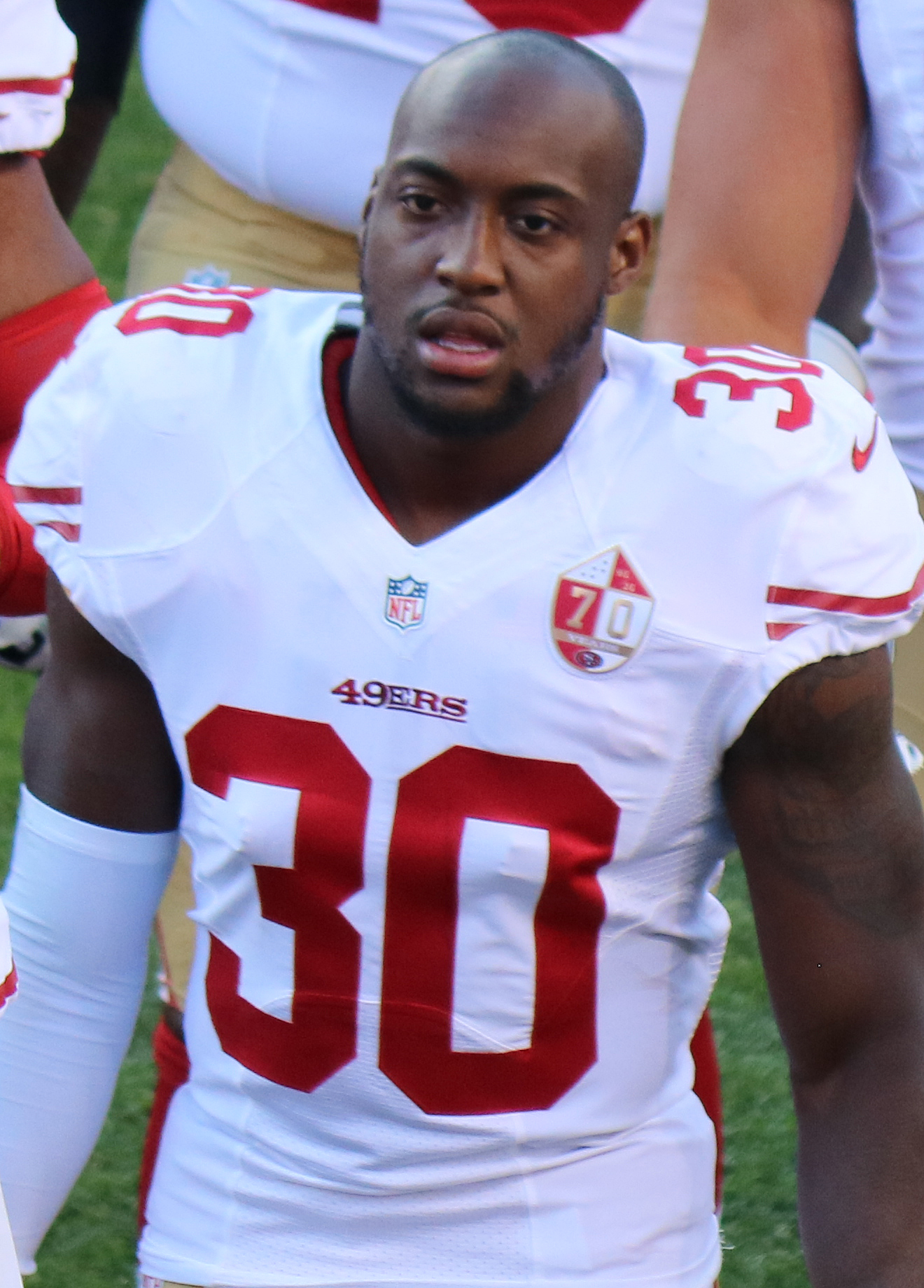 Prince Charles Iworah, a player on the National Football League.